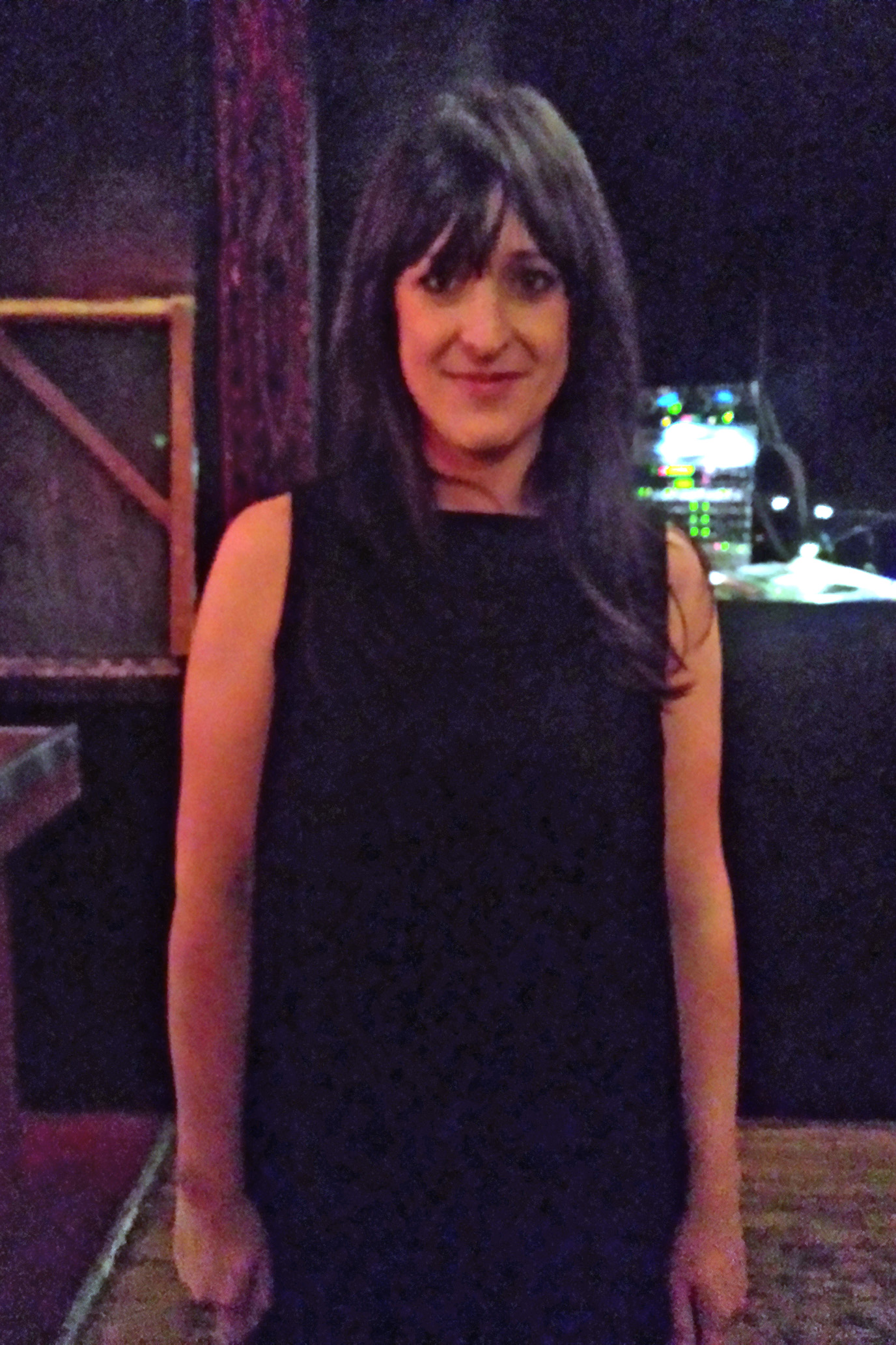 Anne-Élisabeth Bossé photographed in Montreal, Quebec, Canada at La Sala Rossa.